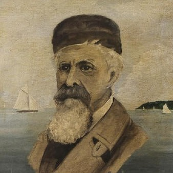 Self-portrait of the artist William Moore Davis, a 19th century painter from Long Island. The harbor of Port Jefferson, New York forms the backdrop to this painting.